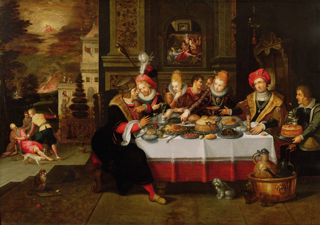 Lazarus and the Rich Man’s Table (from Luke XVI) by Kasper or Gaspar van den Hoecke.